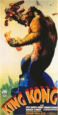 Description: Low-res image of original poster for the film King Kong (1933)